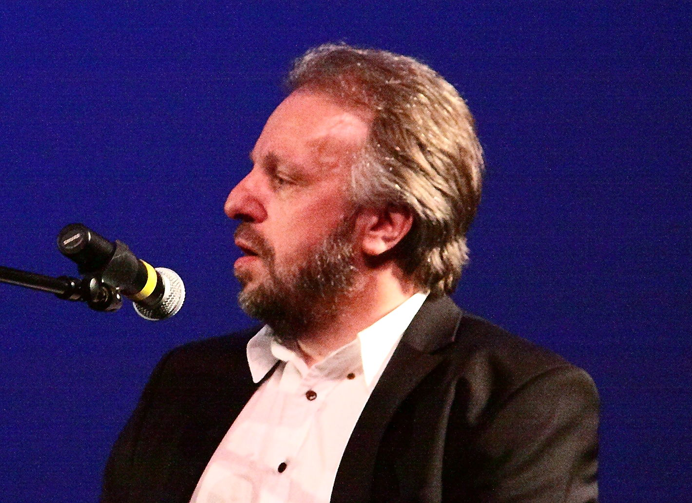 Sunleif Rasmussen speaking at a pre-concert panel at the 2013 Other Minds festival.